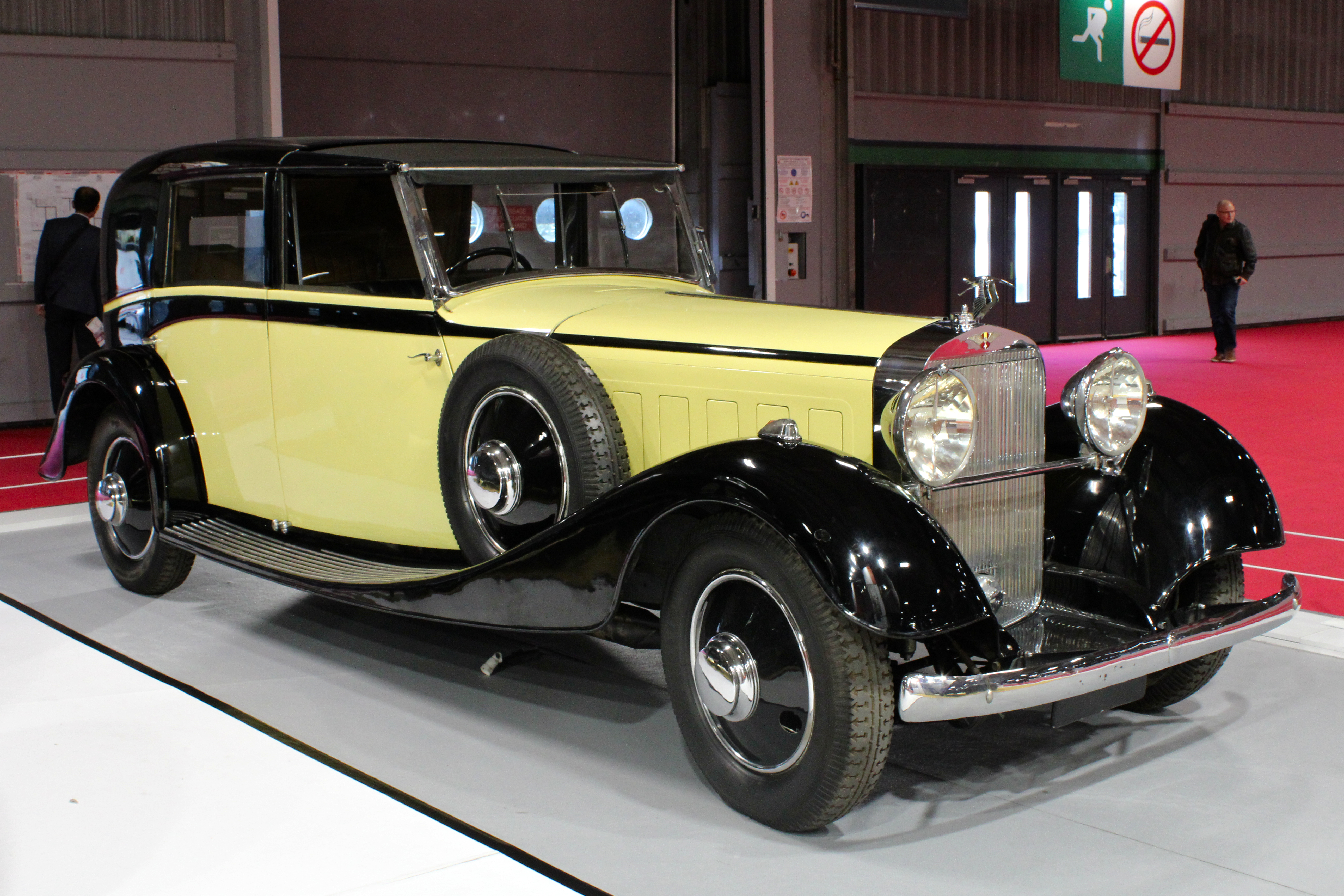 Hispano Suiza J 12 (1934) at Paris Motor Show 2018